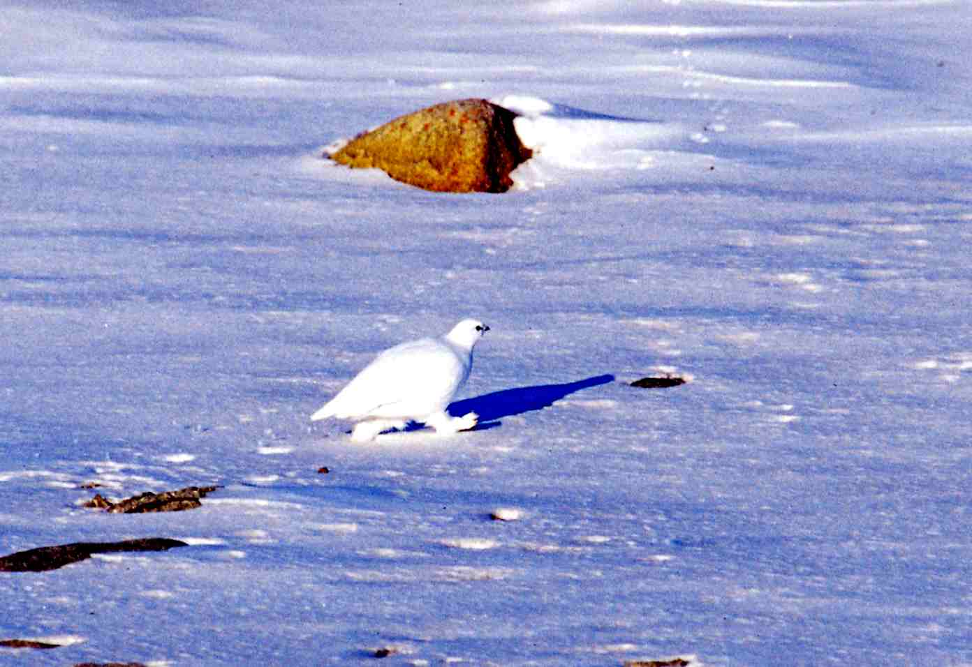 Rock Ptarmigan (Lagopus mutus), offcial Bird of Nunavut